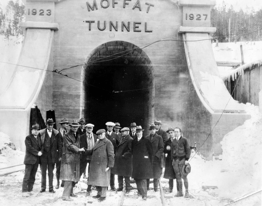 Photo of Chicago, Burlington and Quincy Railroad officials inspecting the Moffat Tunnel in 1934. The railroad was planning to institute service to California. This was the first use of the tunnel by a transcontinental railroad. The train, the Expositon Flyer, began service in 1939 for San Francisco's Golden Gate Exposition. The Exposition Flyer was the forerunner of the Burlington streamliner, California Zephyr. The item has no copyright markings on it as can be seen in the links above.